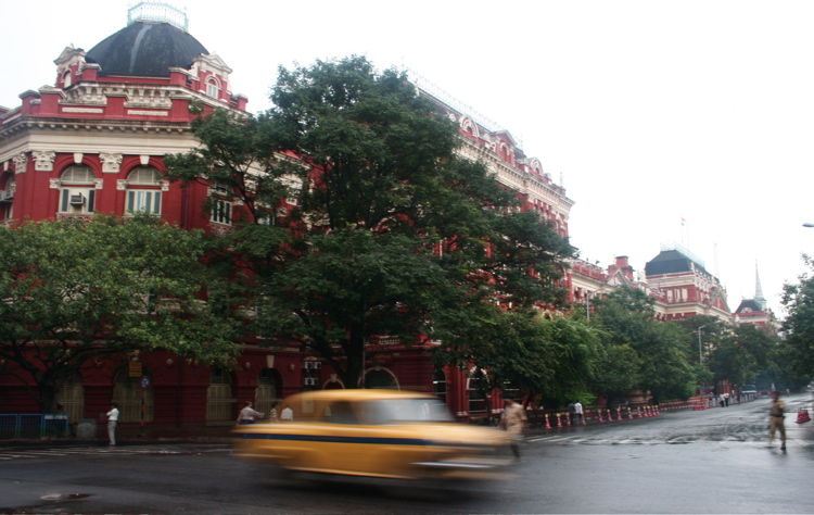 The absolutely enormous Writers' Building once housed the administration of the East India Company, and takes up a block.